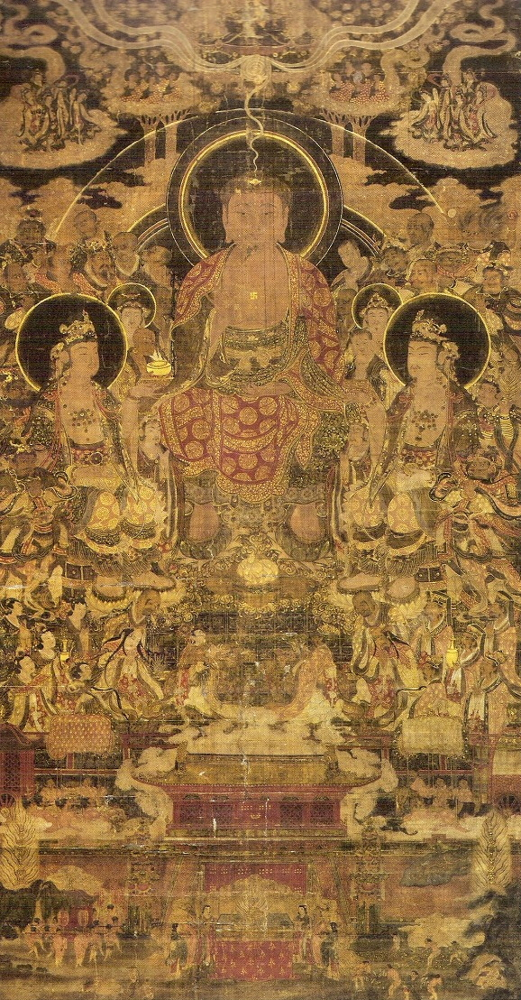 Illustration of Maitreyavyakarana-sutra in Goryeo. (1350)